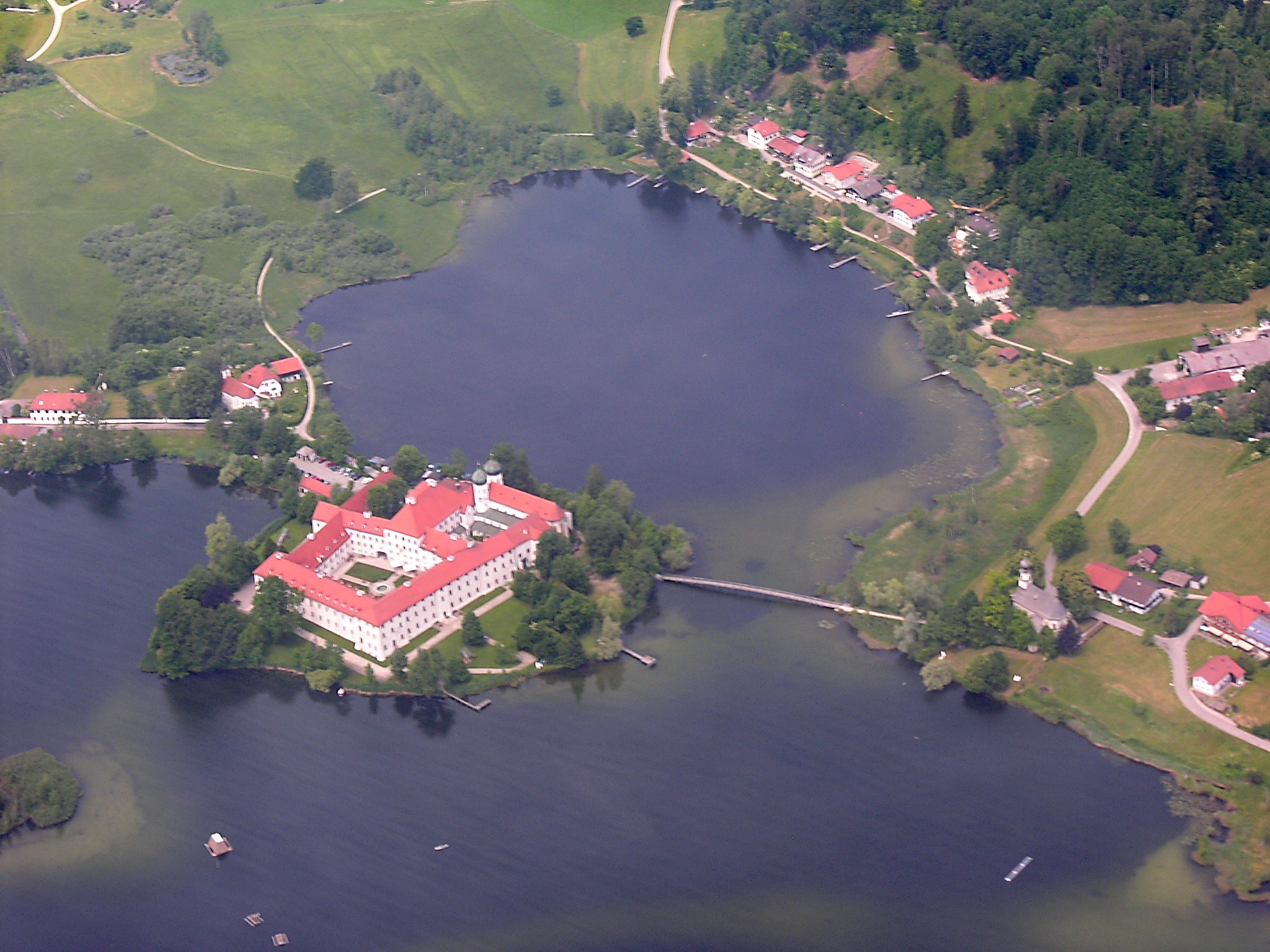 Germany, Bavaria, Seeon Monastry